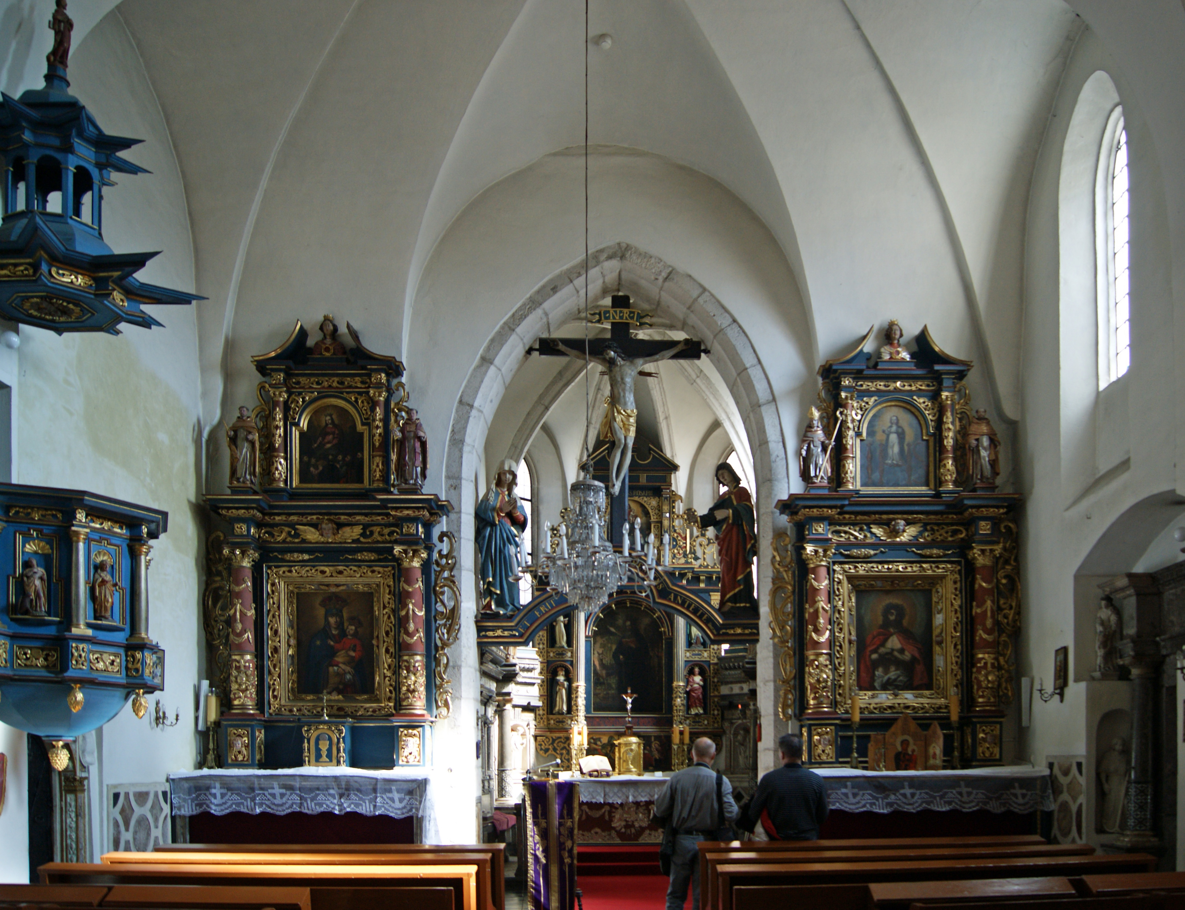 Church of St Giles (interior), 67 Grodzka street, Old Town, Krakow, Poland